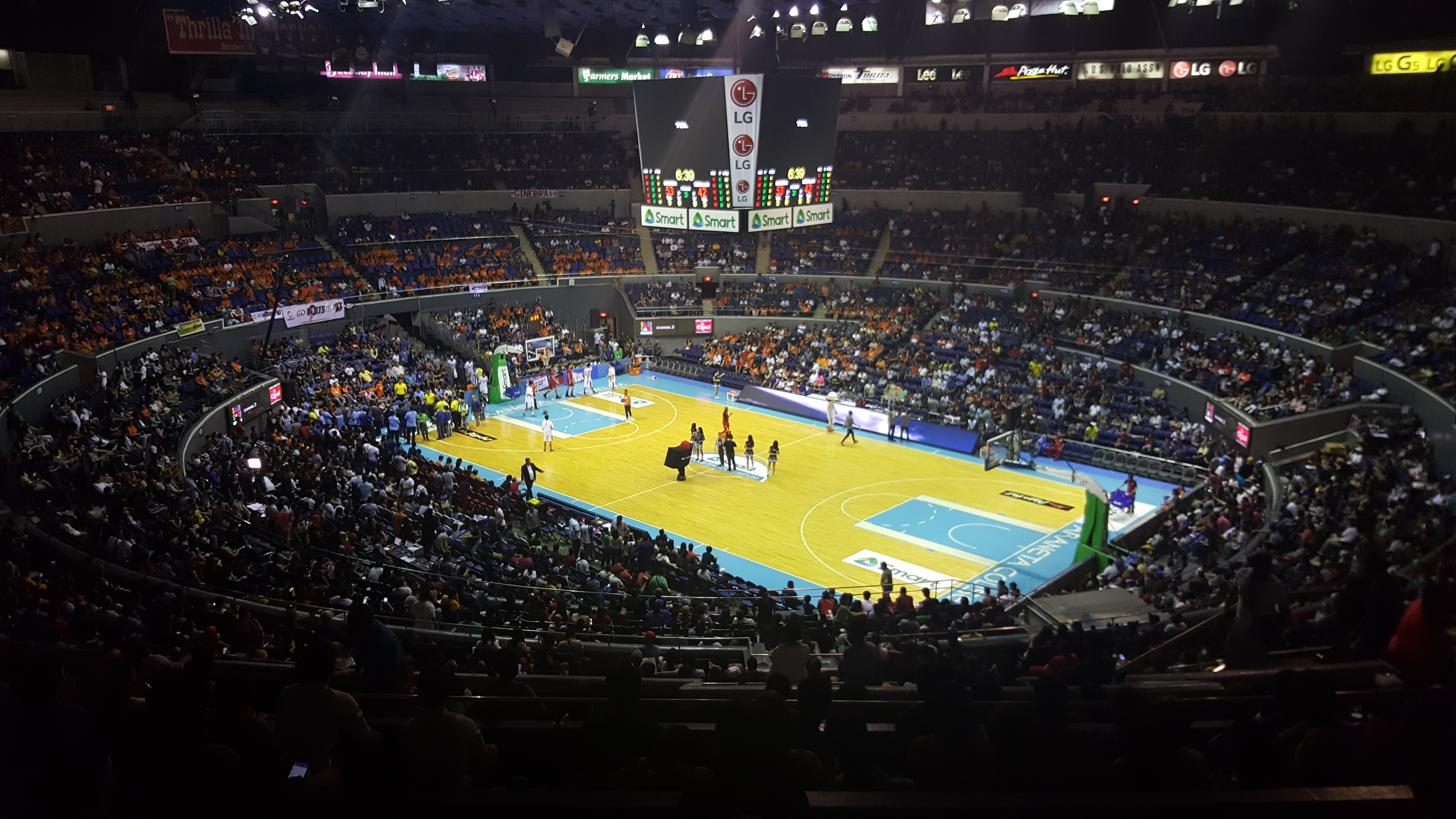 PBA - 2016 Governors' Cup Finals - Barangay Ginebra vs Meralco (Game 1) - 2016-1007